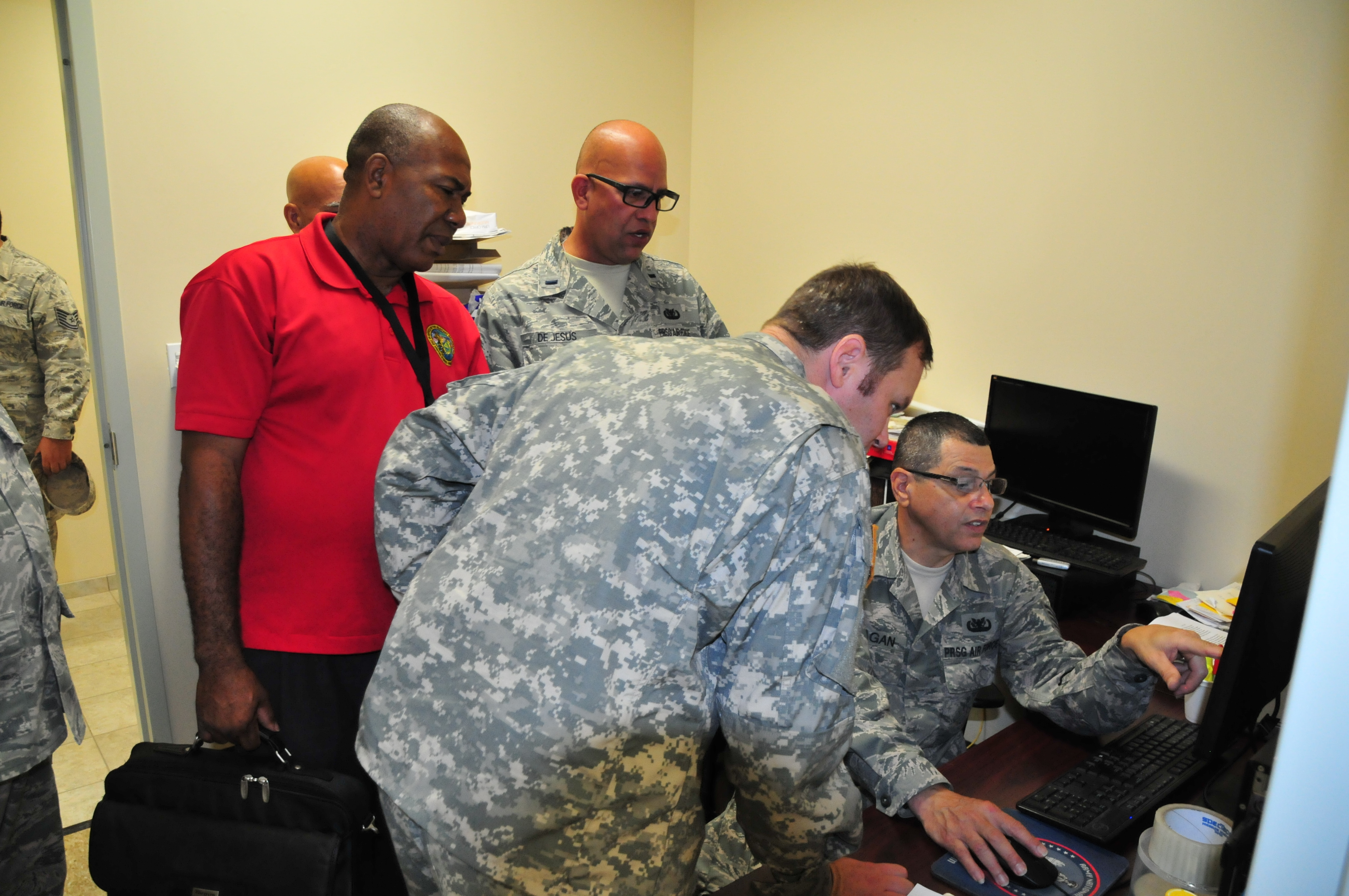 Nine members of the 1st Air Base Group-Puerto Rico Air State Guard spent a week on island travelling to the different installations and offices to conduct visual inspections and minor repairs to the facilities on St. Croix. The team spent a productive week conducting visual inspections and repairs to all VING facilities. They toured the buildings with VING Construction and Facility Management Office staff offering suggestions for repairs and maintenance.